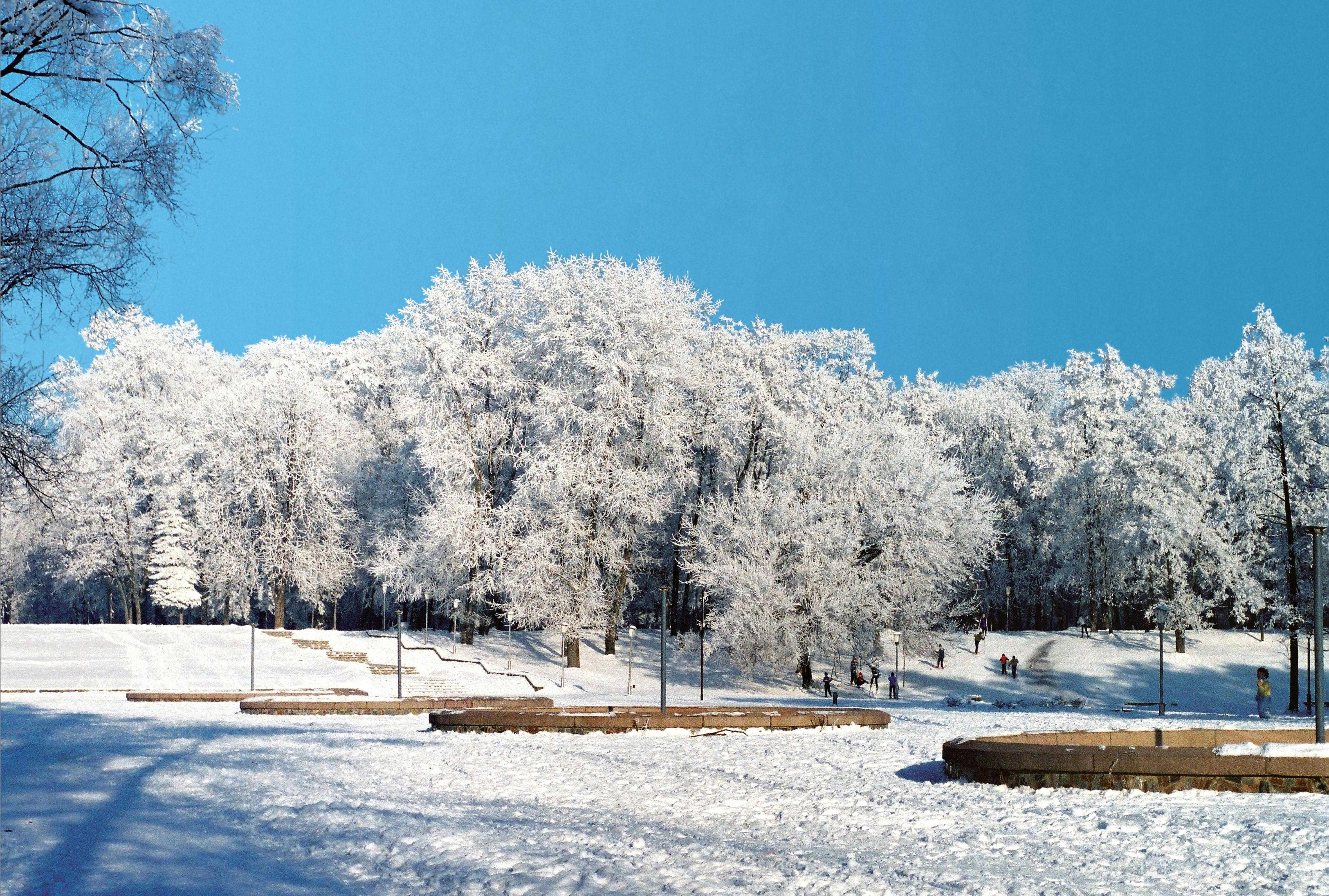 Central park, Chernihiv, Ukraine